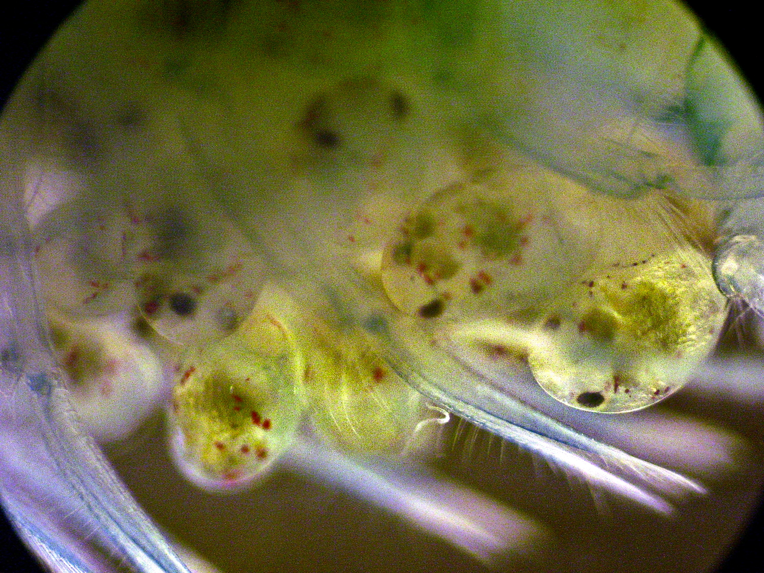 Eggs of a Blue Pearl Shrimp(Neocaridina cf. zhanghjiajiensis var. blue pearl)